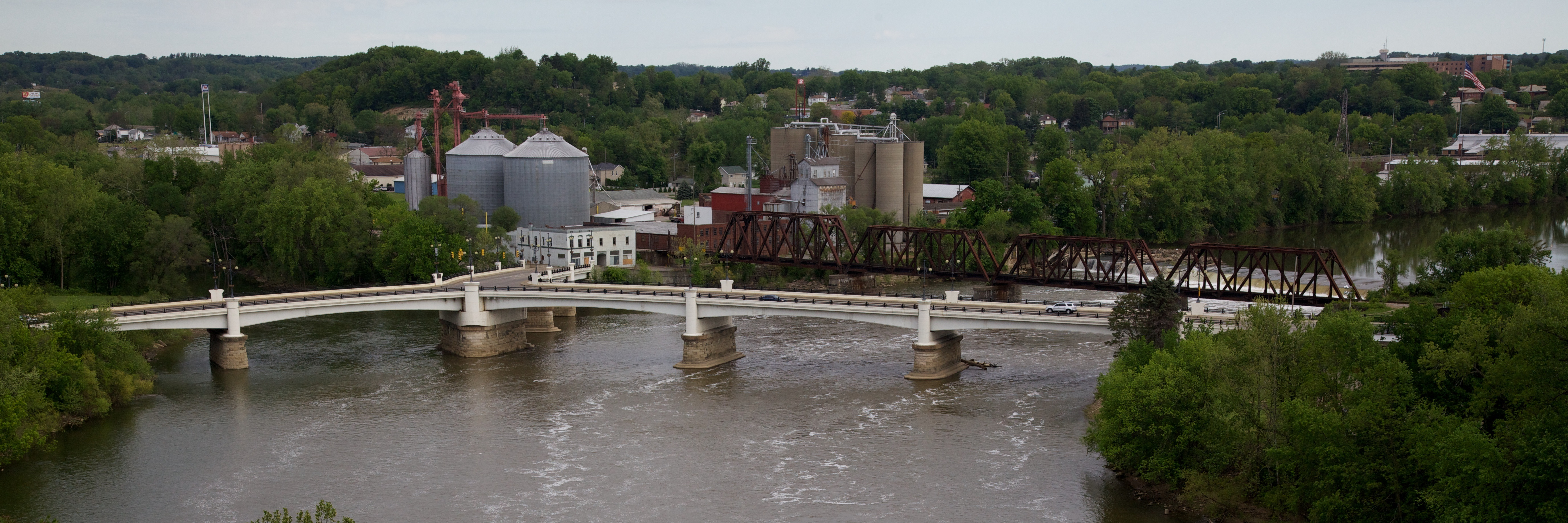 The world famous Y-Bridge over the Muskingum and Licking Rivers in Zanesville, Ohio, United States.